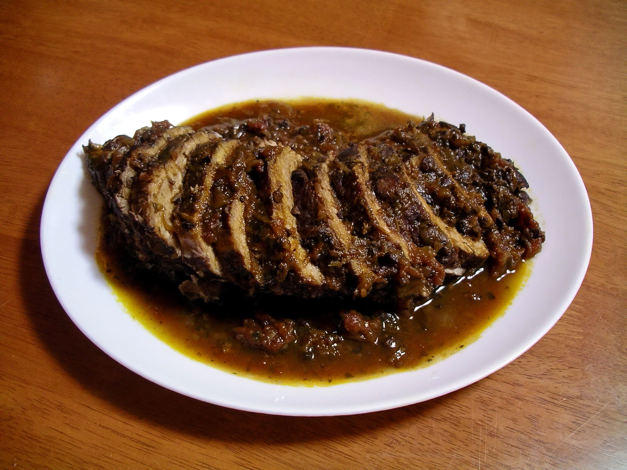 Brasato di maiale nero, pork braised in Chianti, a specialty of the Lombardy region of Italy. Maiale nero means black rooster, the symbol of the Chianti Classico Consortium.